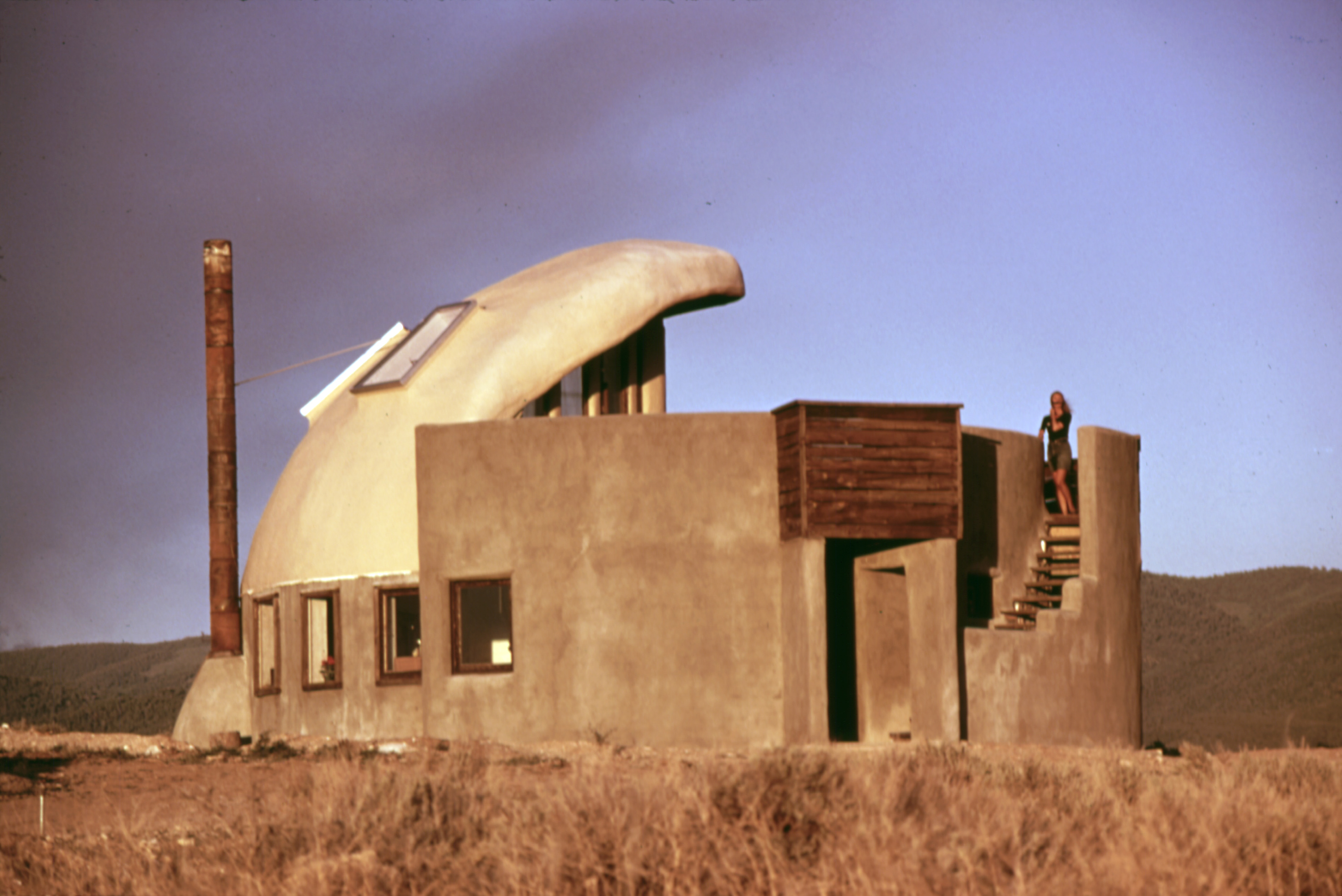 Scope and content: FIRST EXPERIMENTAL HOUSE COMPLETED NEAR TAOS, NEW MEXICO USING EMPTY STEEL BEER AND SOFT DRINK CANS. THE HOUSE WAS BUILT USING CURVED WALLS BECAUSE THEY HAVE MORE STRENGTH, RESULTING IN PIE-SHAPED INTERIOR ROOMS. THERE IS A LAWN ON THE ROOF BELOW THE OVERHANG AT THE TOP OF THE STRUCTURE. RE-CYCLED PAPER PULP IS USED TO COVER THE CEILING OF THE INTERIOR. LATER HOMES WERE BUILT WITHOUT CURVED WALLS AFTER THE DESIGNER FOUND THE CANS WOULD SUPPORT MUCH MORE WEIGHT THAN THEY WOULD HAVE TO BEAR. UNIVERSITY TESTS LATER SUBSTANTIATED HIS FINDING